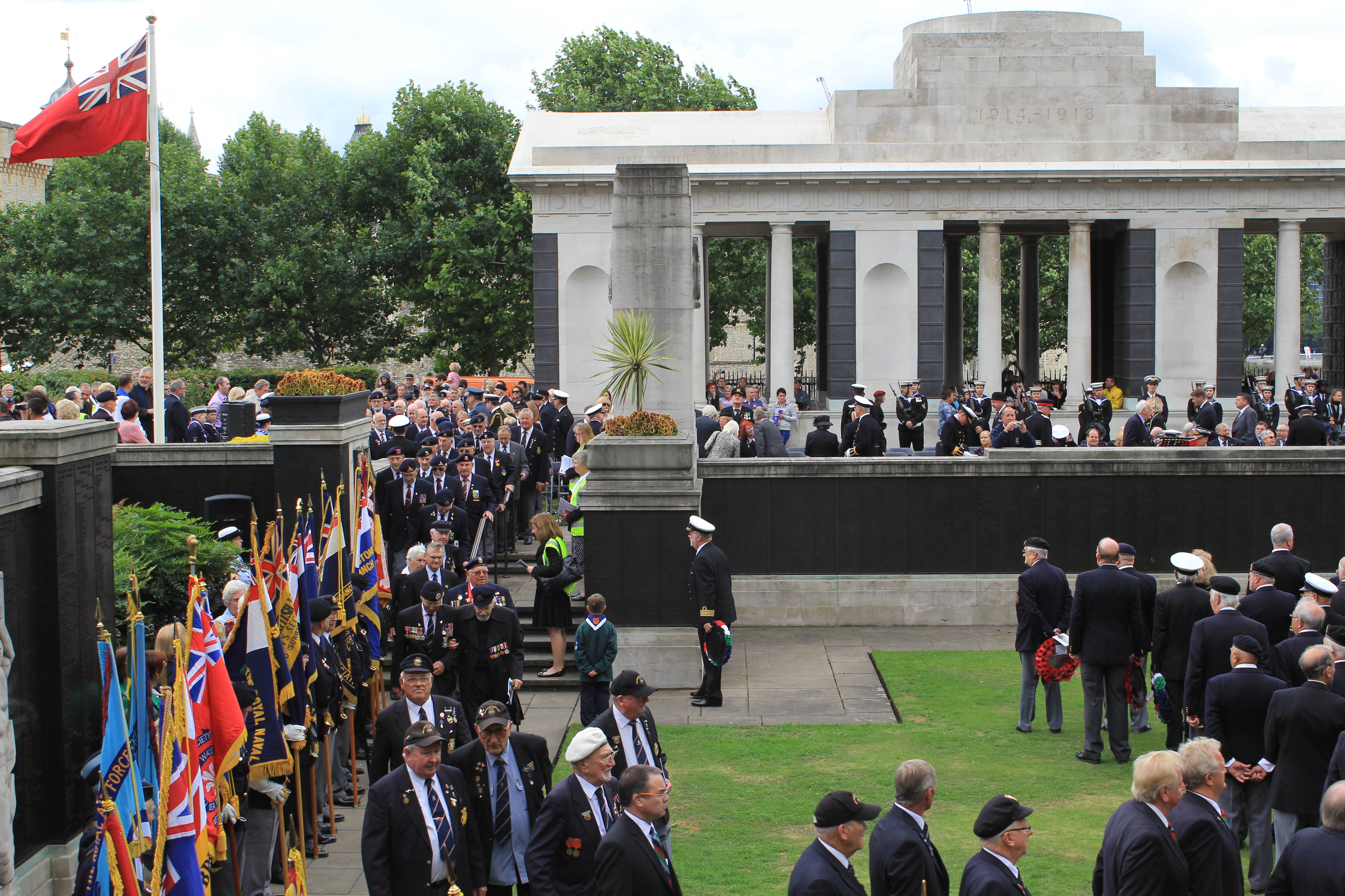 2013 Merchant Navy Day Commemorative Service and Reunion